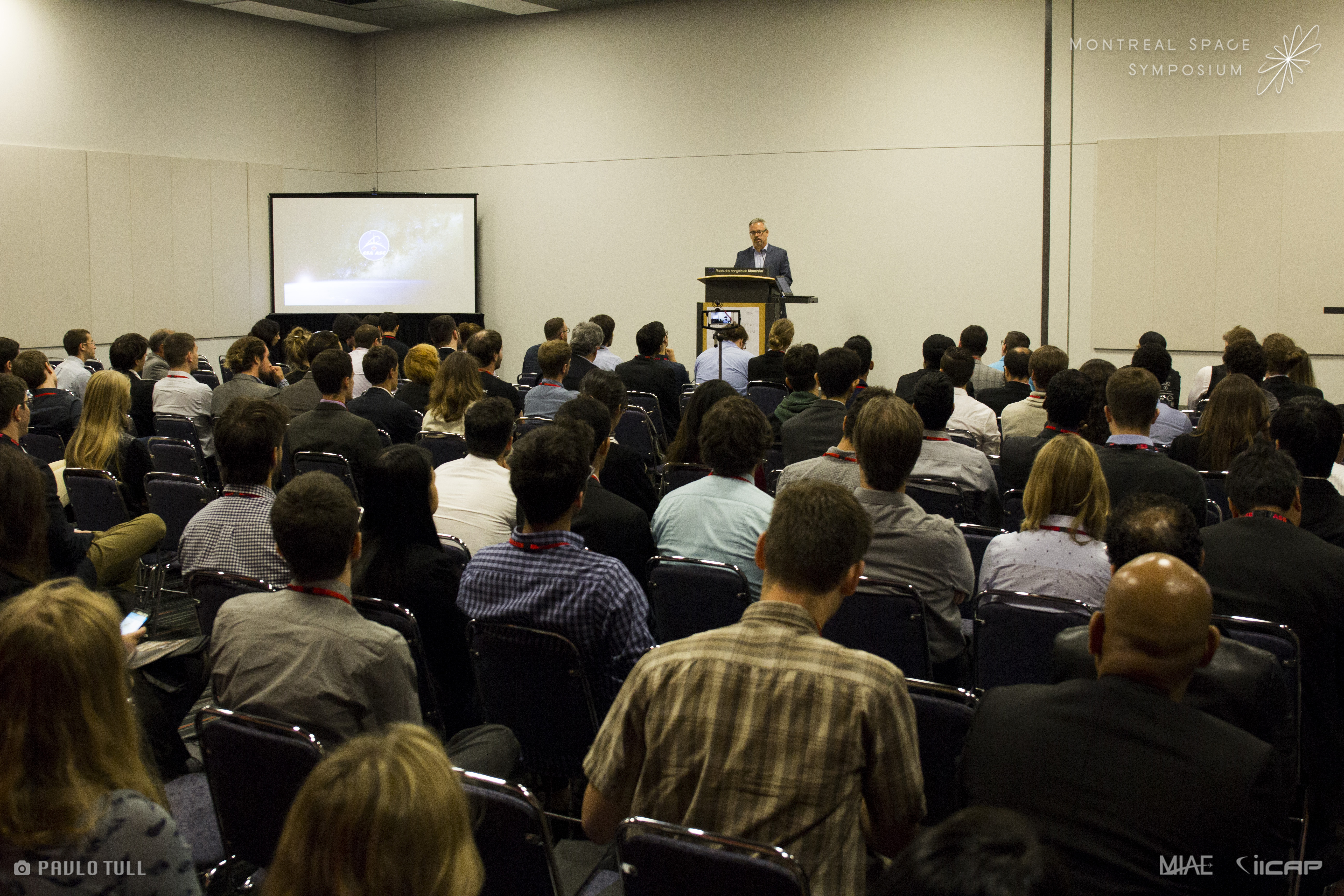 Sylvain Laporte, President of the Canadian Space Agency, presenting at the first Montreal Space Symposium.